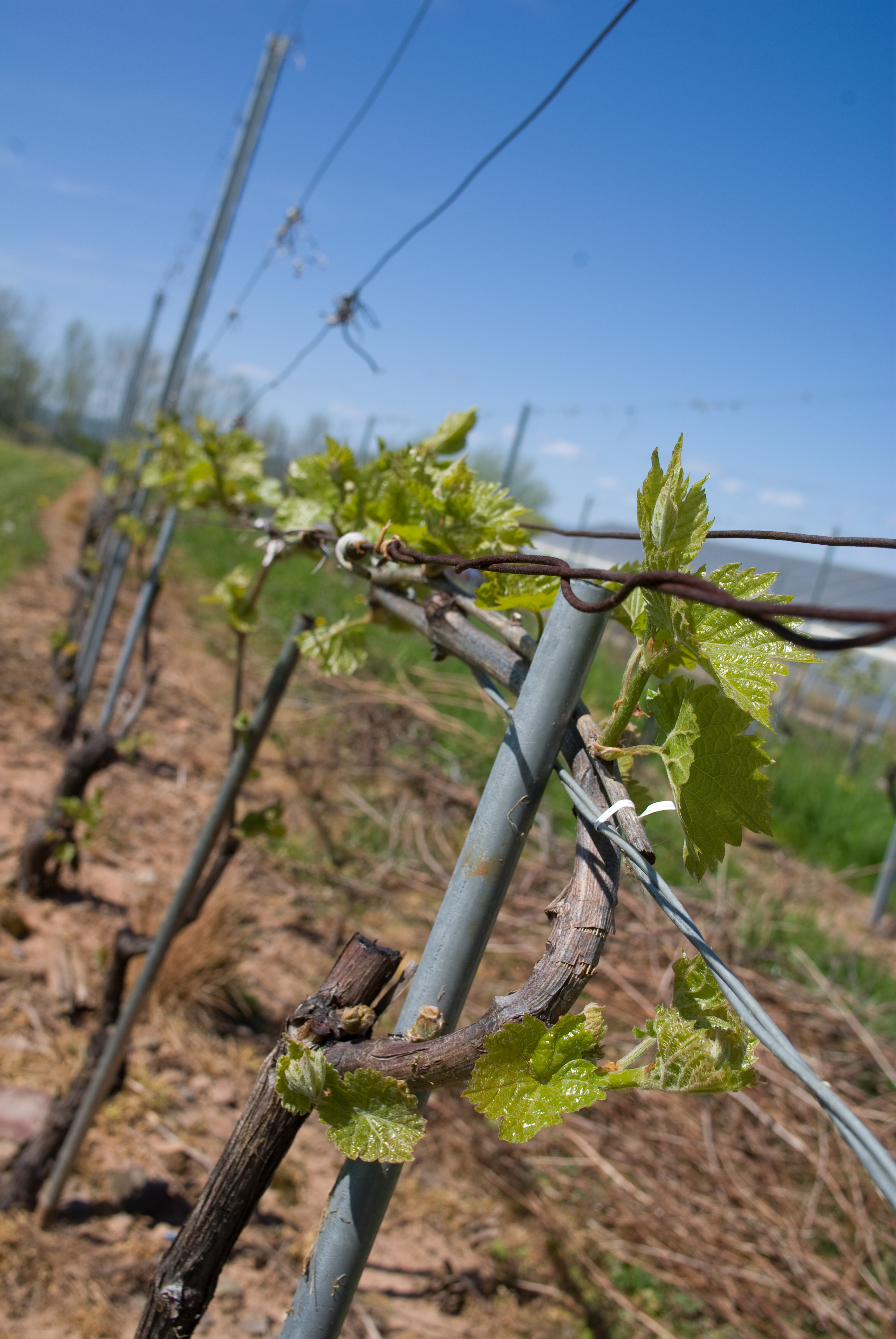 An example of L'Acadie Blanc Vines being trained on poles and wires at Domaine de Grand-Pré, Nova Scotia.